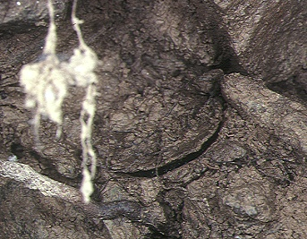 burrow of Latouchia swinhoei swinhoei from Okinawa.